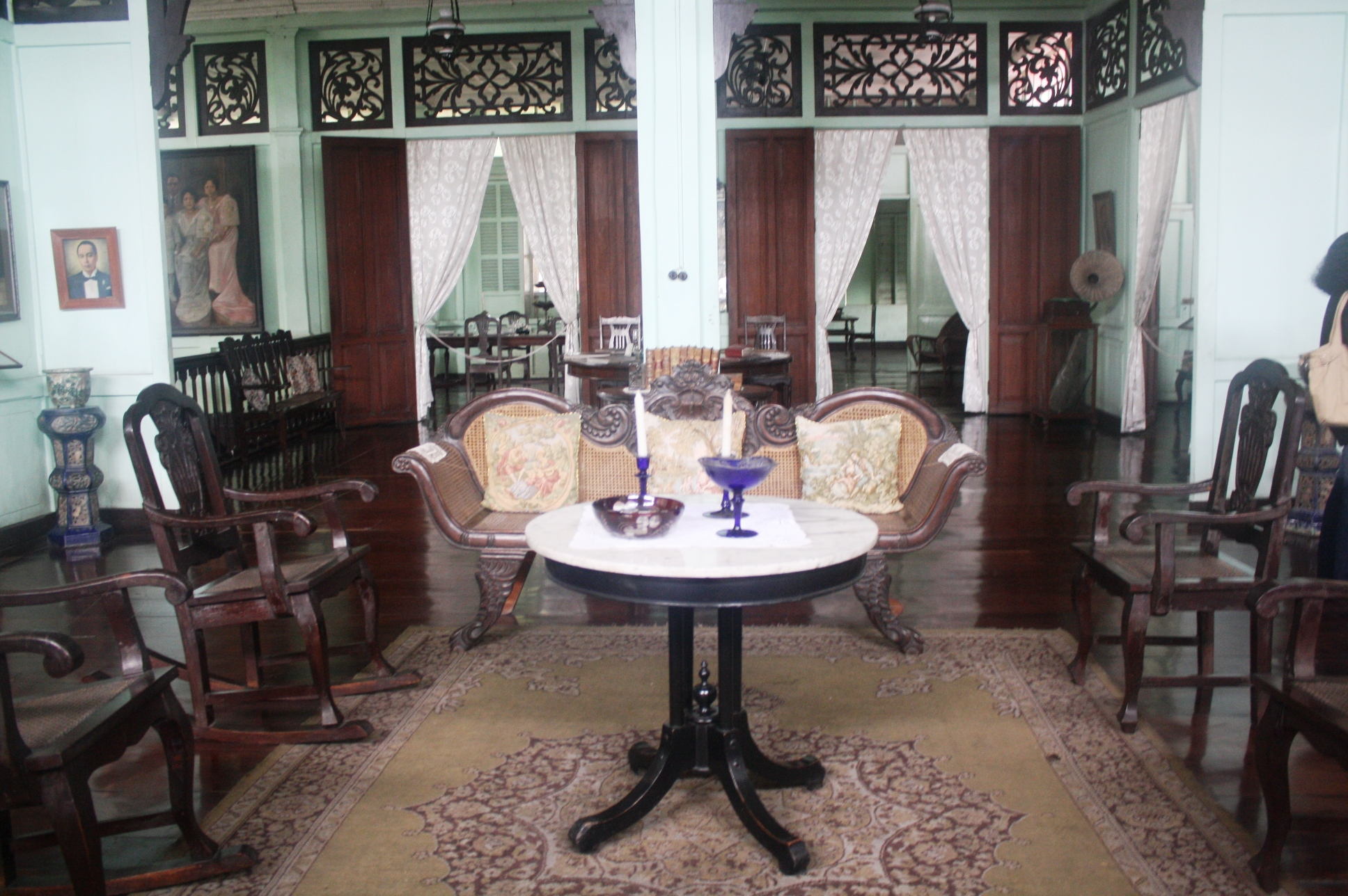 The receiving area of the Bernardino Jalandoni house.